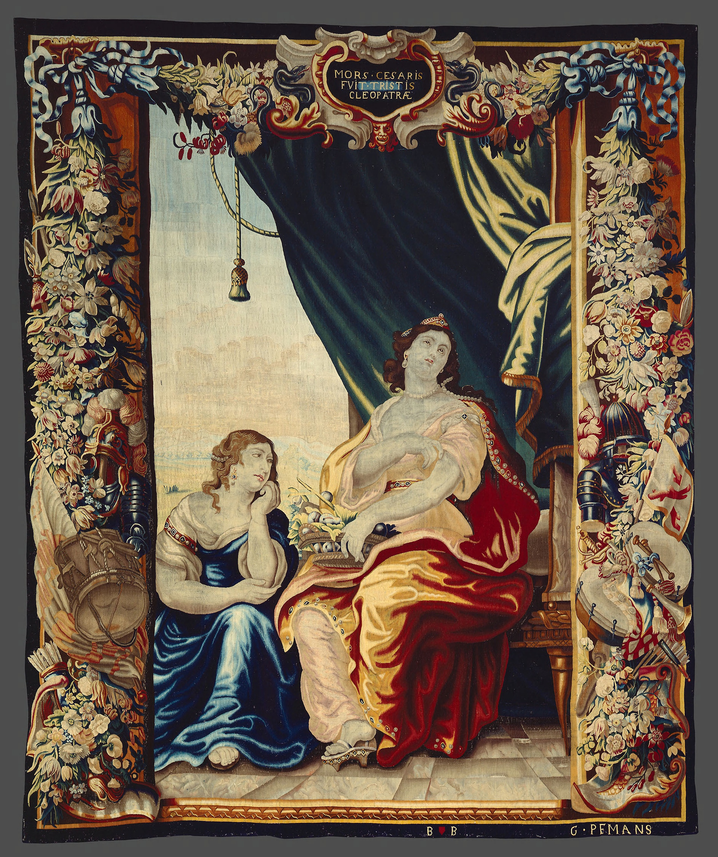 Caesar's Death Makes Cleopatra Mourn from The Story of Caesar and Cleopatra by Justus van Egmont